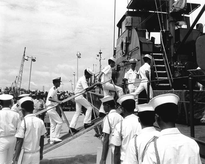 "Place: Cat Lo Support Base; Decommission of CG SQ. ONE (1), DIVISION 13, and turnover of WPBs. This is the last C. G. combat unit in Vietnam." No photo number; 15 August 1970; Official U. S. Navy Photograph; PH2 Evans, USN, photographer